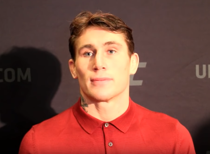 From YouTube-Video called Darren Till: "I Will Accomplish A Dream When I Win The UFC Title" l Pre-Fight UFC 228 Interview.